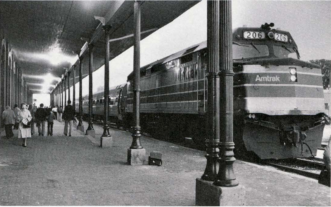 The westbound Michigan Executive at the newly refurbished Jackson station in October 1978